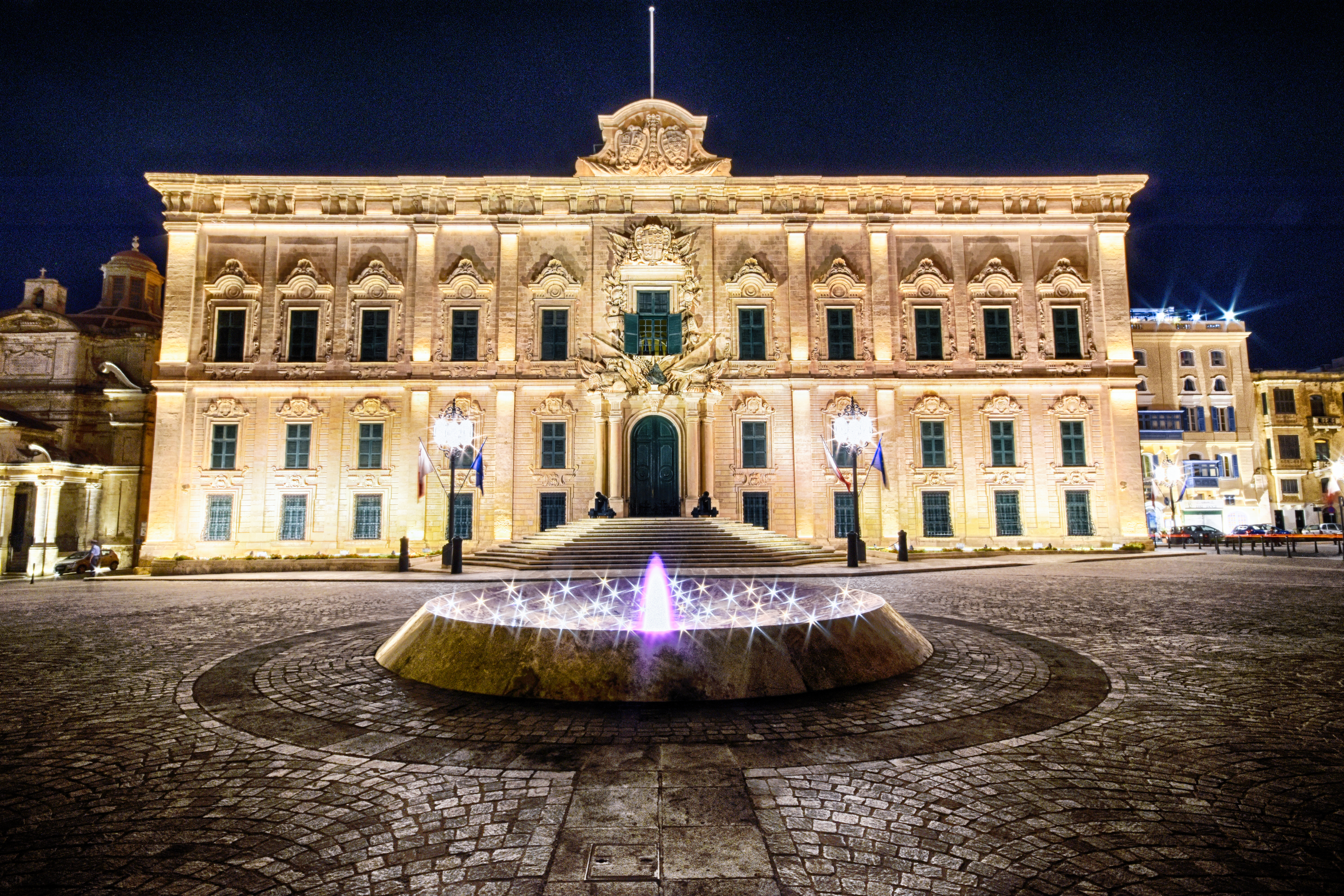 Auberge de Castille et Leon This media is about Maltese cultural property with inventory number 01127.